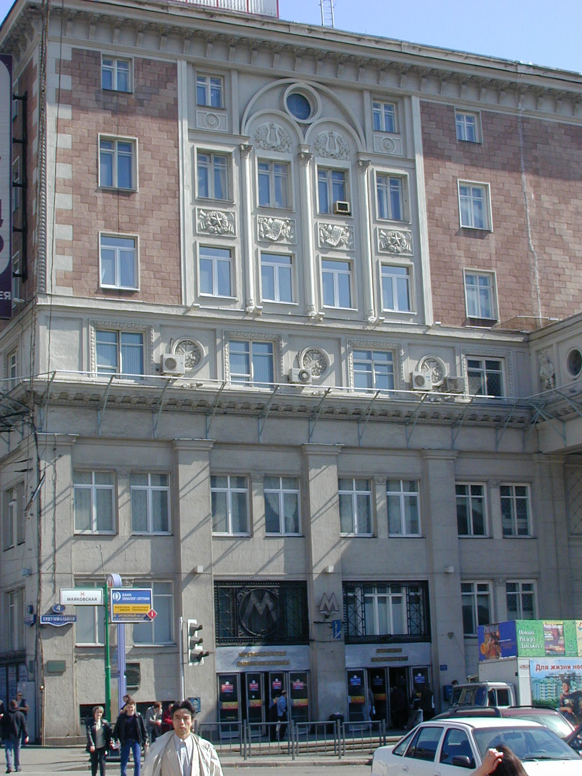 Mayakovksaya vestibule; Pyotr Tchaikovskiy Concert Hall Moscow Metro.